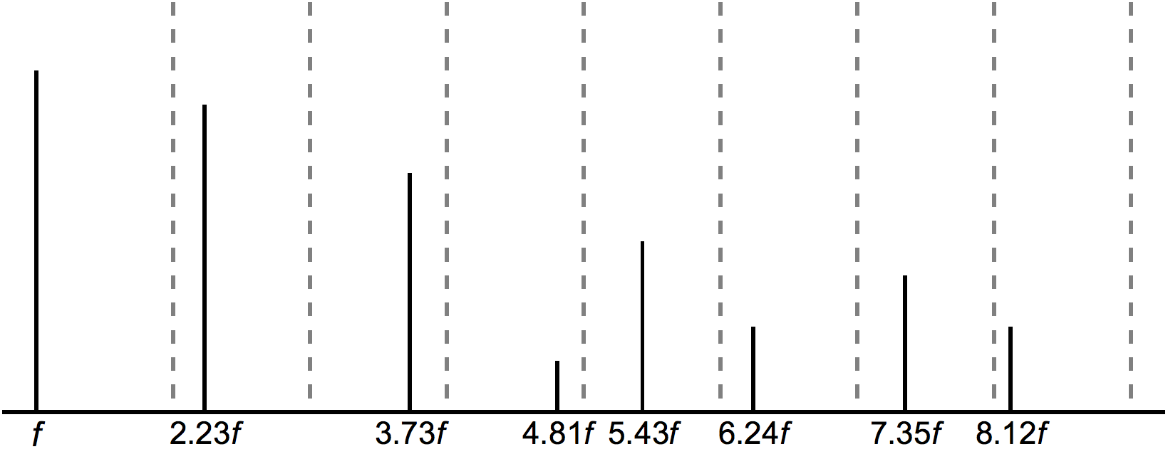 Example of an inharmonic spectrum modelled on a bell, for comparison with File:Harmonic spectra theoretical x y.png. Dashed gray lines indicate integer multiple harmonics. Source for partials (f): Hosken, Dan (2014). An Introduction to Music Technology, p.45. Routledge. ISBN 9781135966829.